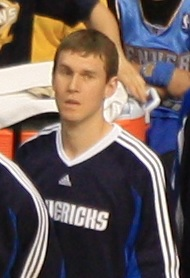 Matt Carroll on the bench during a playoff game